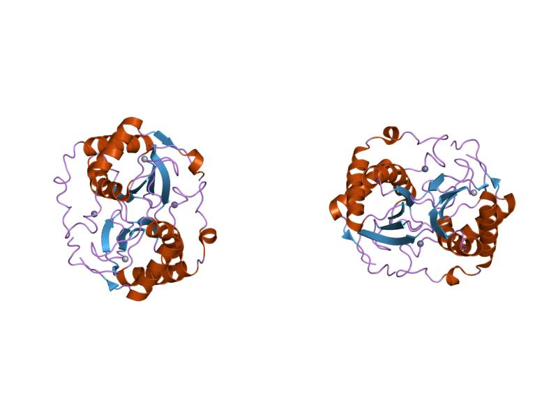 Cartoon representation of the molecular structure of protein registered with 1joe code.